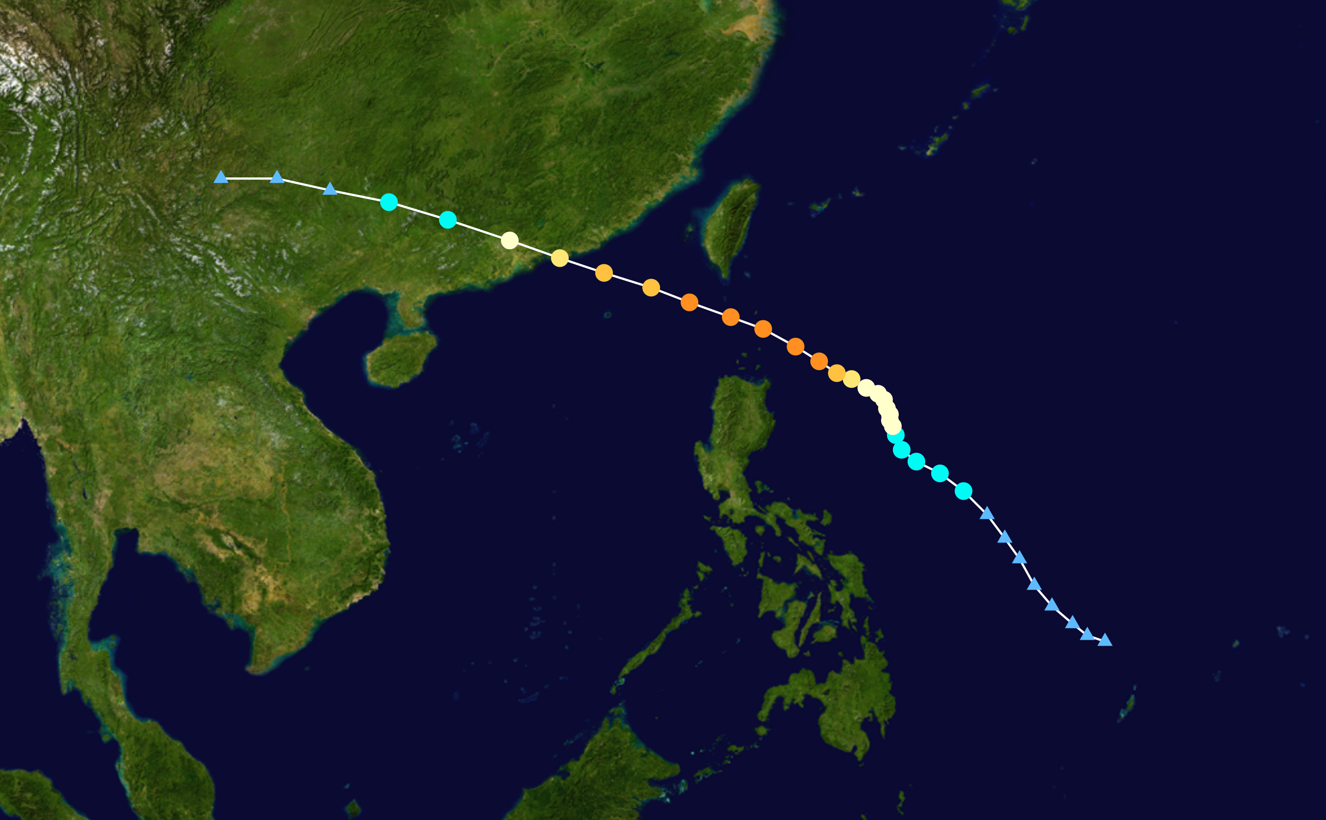 Typhoon Kent 1995 track. Uses the color scheme from the Saffir-Simpson Hurricane Scale.